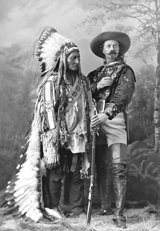 Photograph, Sitting Bull and Buffalo Bill, Montreal, QC, 1885, Wm. Notman & Son, Silver salts on glass - Gelatin dry plate process - 17 x 12 cm